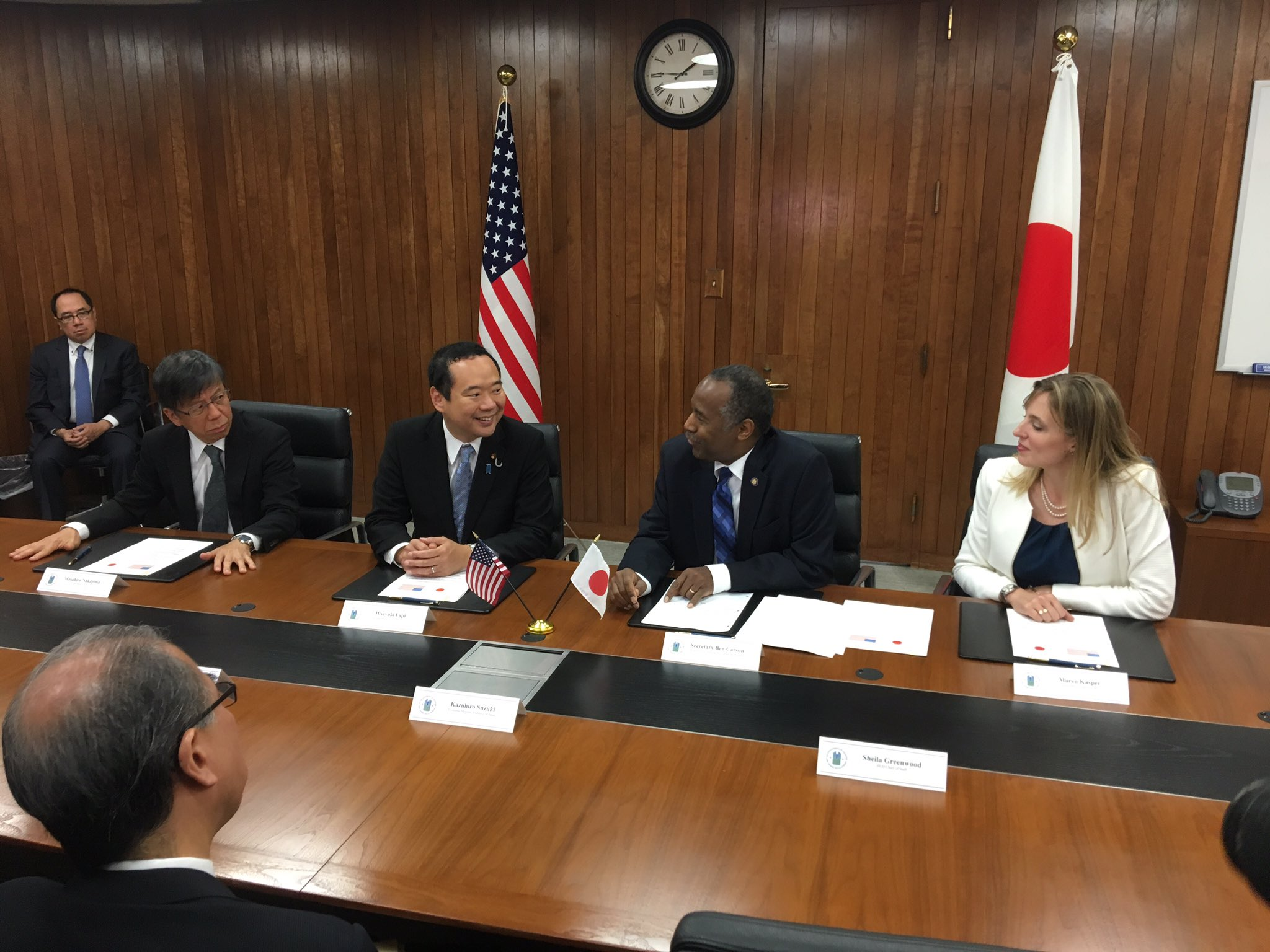 Welcoming a delegation from Japan to @HUDgov for a signing of a memorandum of cooperation to collaborate on aging in place research